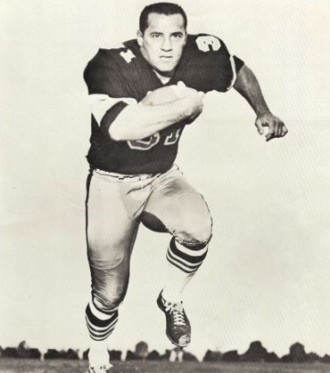 Jim Taylor playing for the New Orleans Saints in 1967